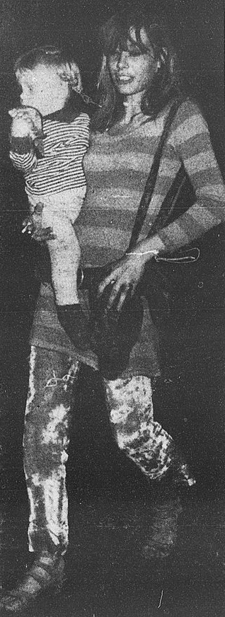 Anita Pallenberg and her son out of their hotel in Milan, 2 October 1970